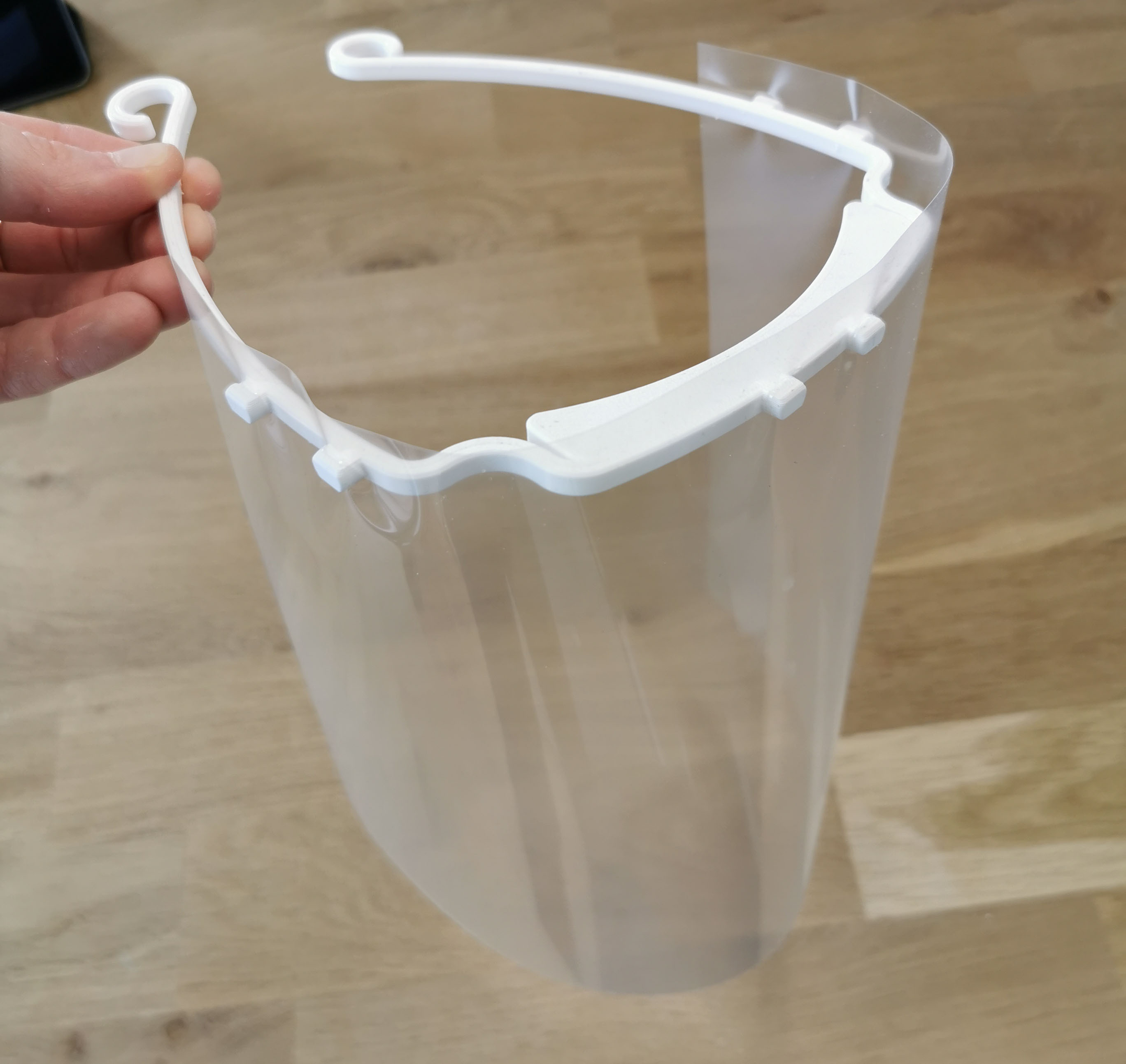 Medical face visor create via 3D printing in response to COVID-19 related shortages.